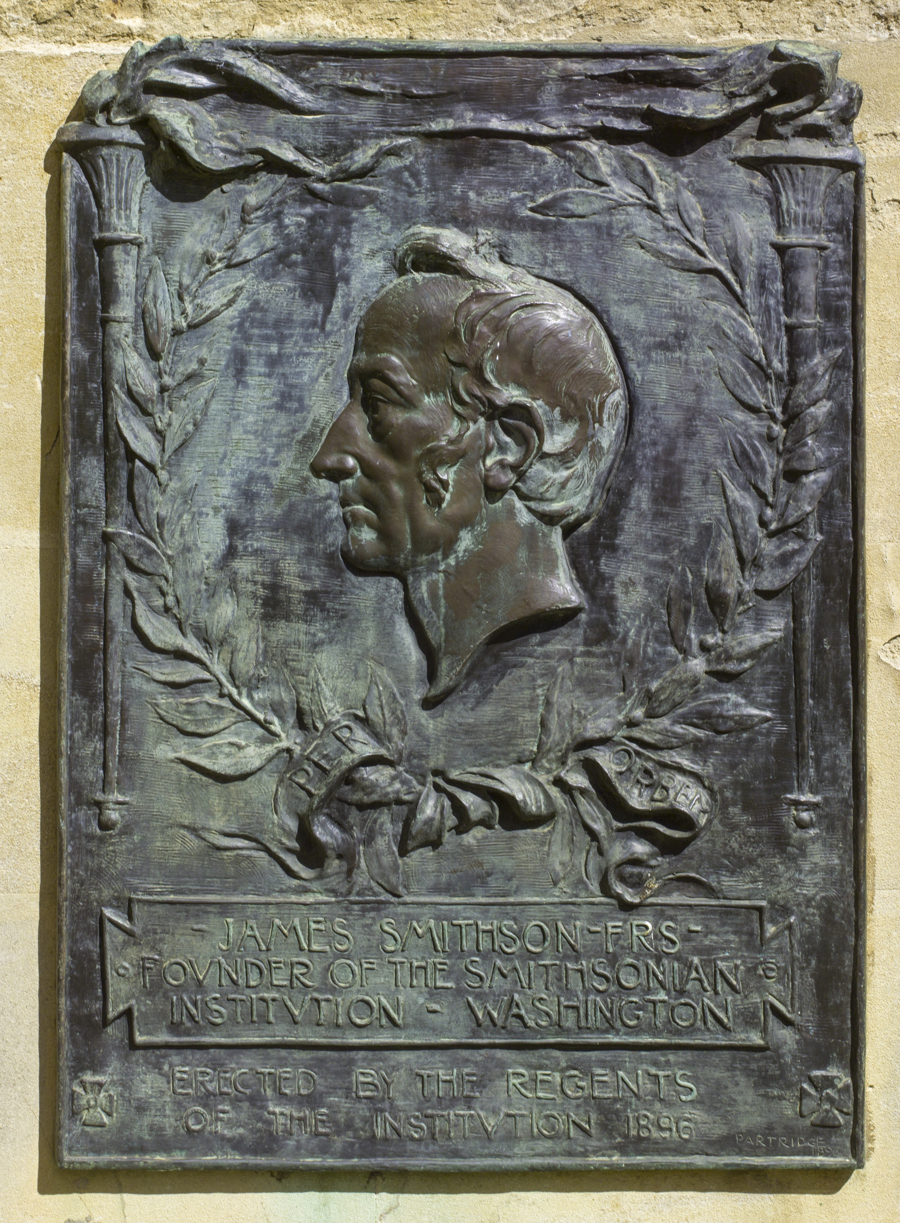 Pembroke College (Oxford University) founded in 1624. The plaque depicts James Smithson, one of Pembroke's alumnae. Smithson later became the founding donor of the Smithsonian Institution.The bronze plaque above comes from this plaster mold.